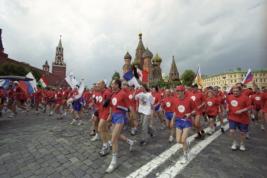 “6th International Maxi-Marathon of Nuclear Workers”. Participants in the 6th International Maxi-Marathon of Nuclear Workers from 14 countries having nuclear power plants in their territories, in Moscow's central Vasilyevsky Spusk Square. 2001.